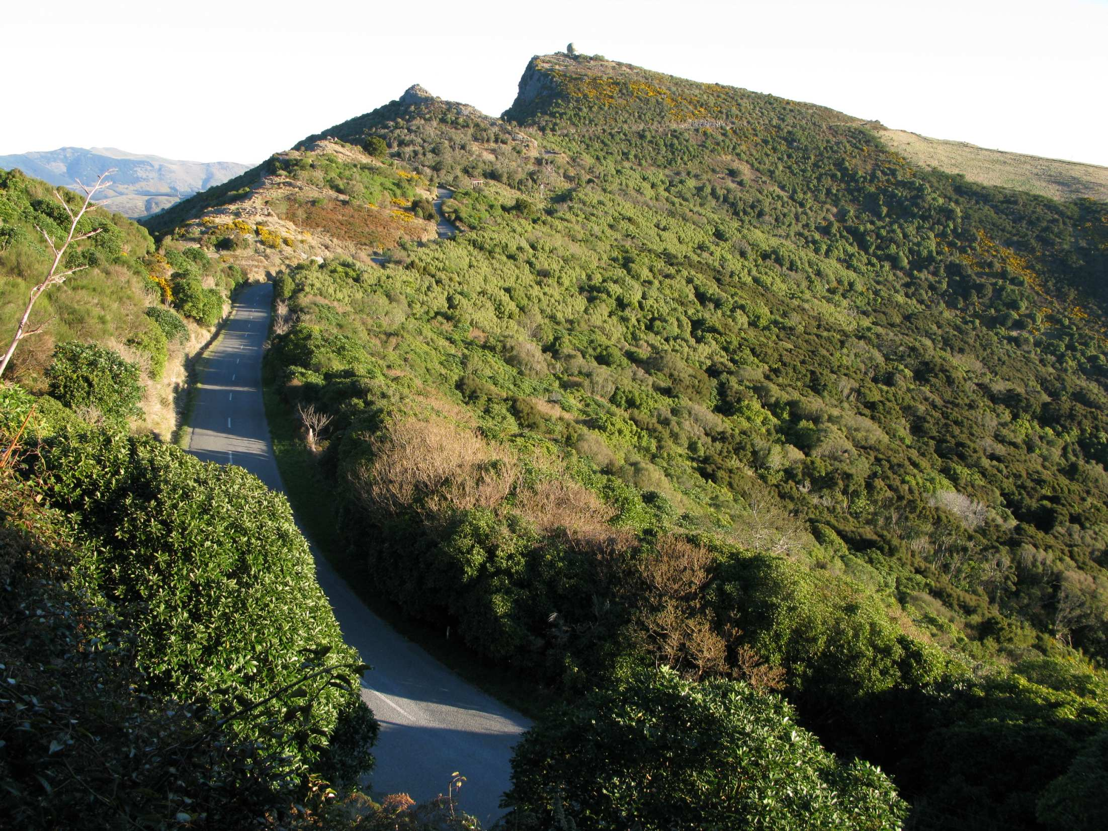 Kennedys Bush Scenic Reserve from the Summit Road. Port Hills, Christchurch. Sept 2009. Cass Peak is the hill in the background with the radar dome on it.